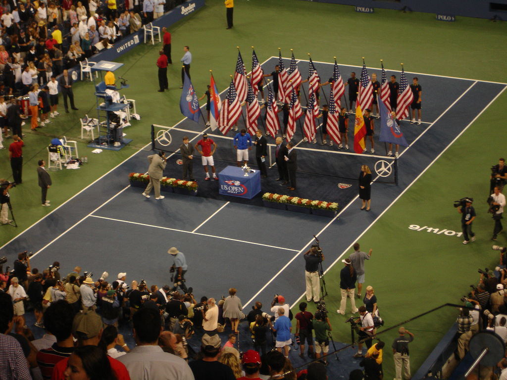 US Open 2011 Final Novak Đoković vs Rafael Nadal